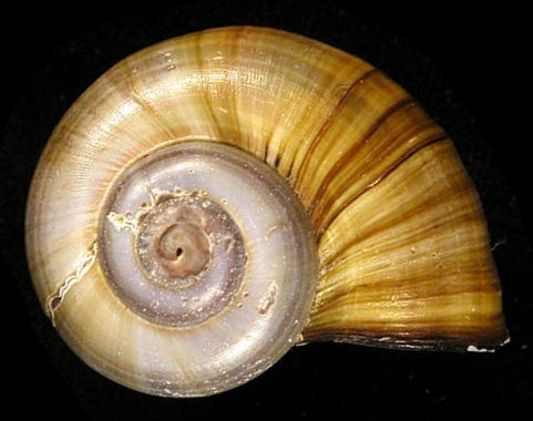 Photo of the apical view of the shell of Pomacea lineata. Locality: Sao Paulo, Brazil.